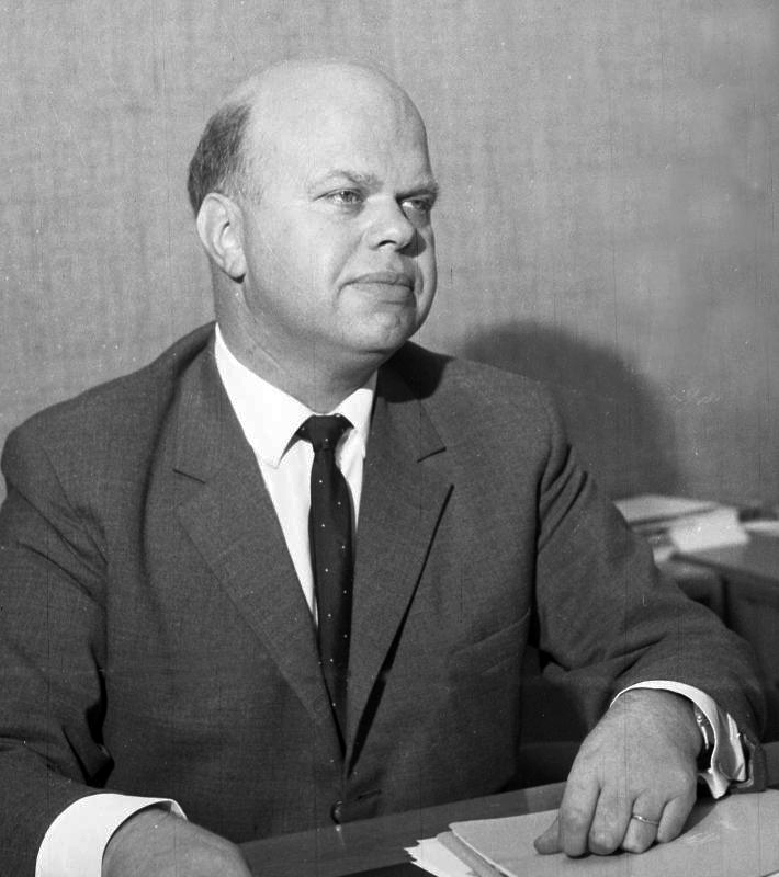 Format: 120 mm sort/hvitt negativ Dato / Date: 1966 Fotograf / Photographer: Eirik Sundvor (1902 - 1992) Sted / Place: Bergen, Hordaland Hvem er hvem? (1973): Åsmund Oftedal (f. 1924) Eier / Owner Institution: Trondheim byarkiv, The Municipal Archives of Trondheim Arkivreferanse / Archive reference: Tor.H43.B78.F4362 OFTEDAL Åsmund, kultursjef, Bergen, f. 24. nov. 1924 i Sauda, sønn av bakermester Ole O. (1893-1966) og Maria Høiland (1895-1962). Gift 1952 Ruth Halvorsen, f. 10. april 1926, dtr. av dir. Sigvald Gustav Johan H. (1893-1961), Bergen og Alma Kristofa Monsen, f. 1893. St. 1944, bifageks. i fransk. Hallomann NRK Bergen og Oslo 1948, pressesjef Festspillene i Bergen 1954, rekl.kons. Tegnernes Byrå, Bergen 1954, Bergens Annonsebyrå 1955, rekl.sjef, senere soussjef Alf Gundersens Ann.byrå 1961, kons. Den Nat. Scene og Arb.utv. for Grieghallkom. 1966, dir. Festspillene i Bergen 1966, kultursjef i Bergen komm. siden 1972. Form. Aktive Studenters For., viseform. Stud.samf. i Bergen, form. og studiesekr. Norske Stud. Fri Undervisn., form. Salgs- og Rekl.for., Bergen. Styremedl. Komm. Kinematografers Landsforb. siden 1972.